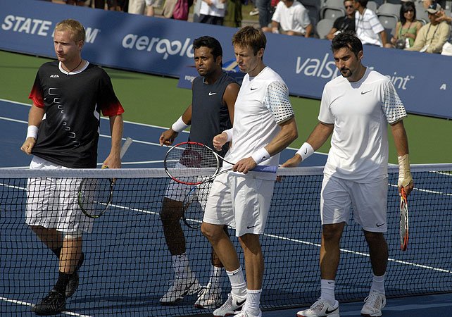 Lukas Dlouhy & Leander Paes shaking hands with Daniel Nestor & Nenad Zimonjic at the 2008 Rogers Cup.